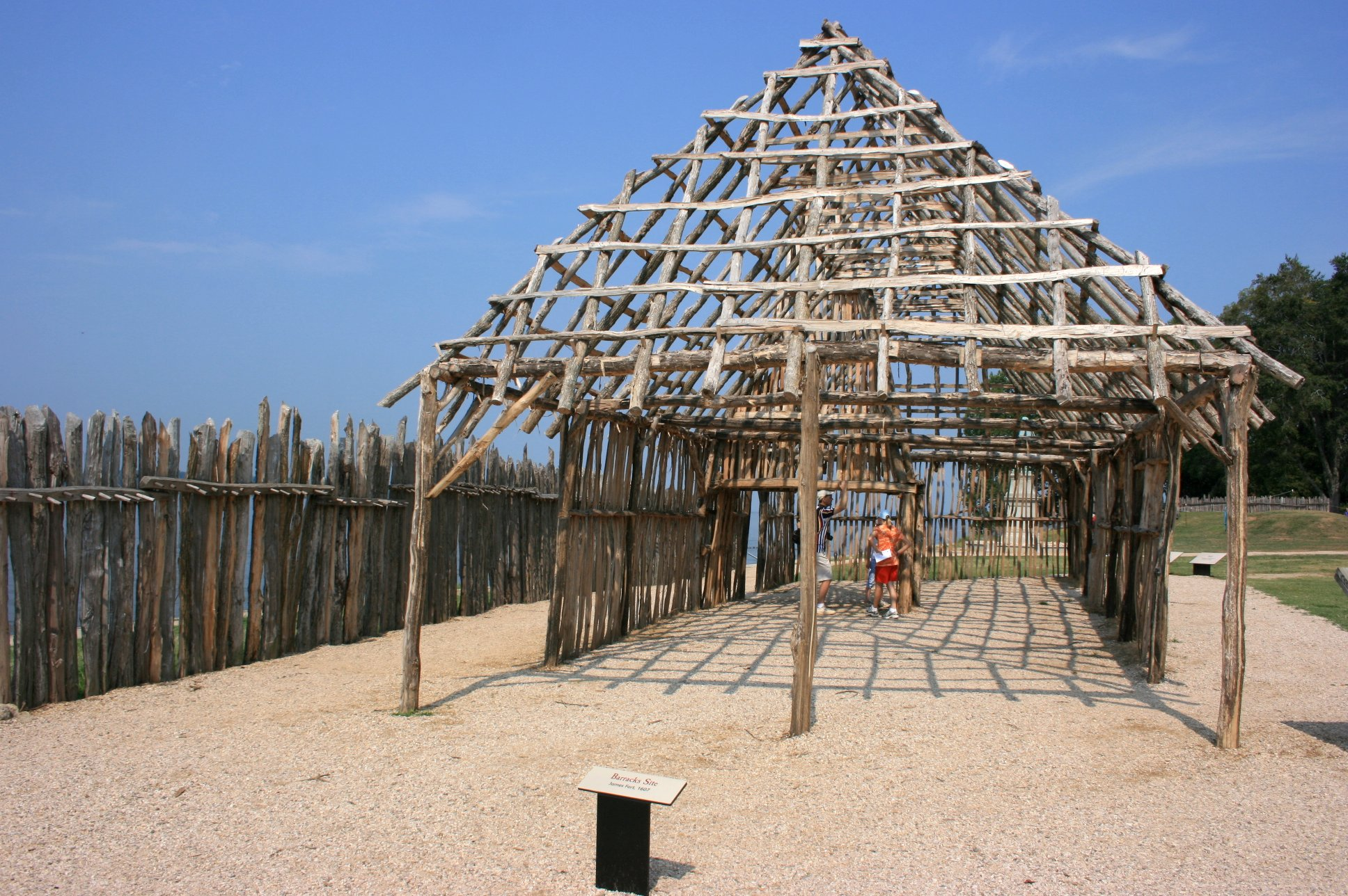 Photograph of a reconstruction of a barrack in Historic Jamestowne, Virginia, USA.